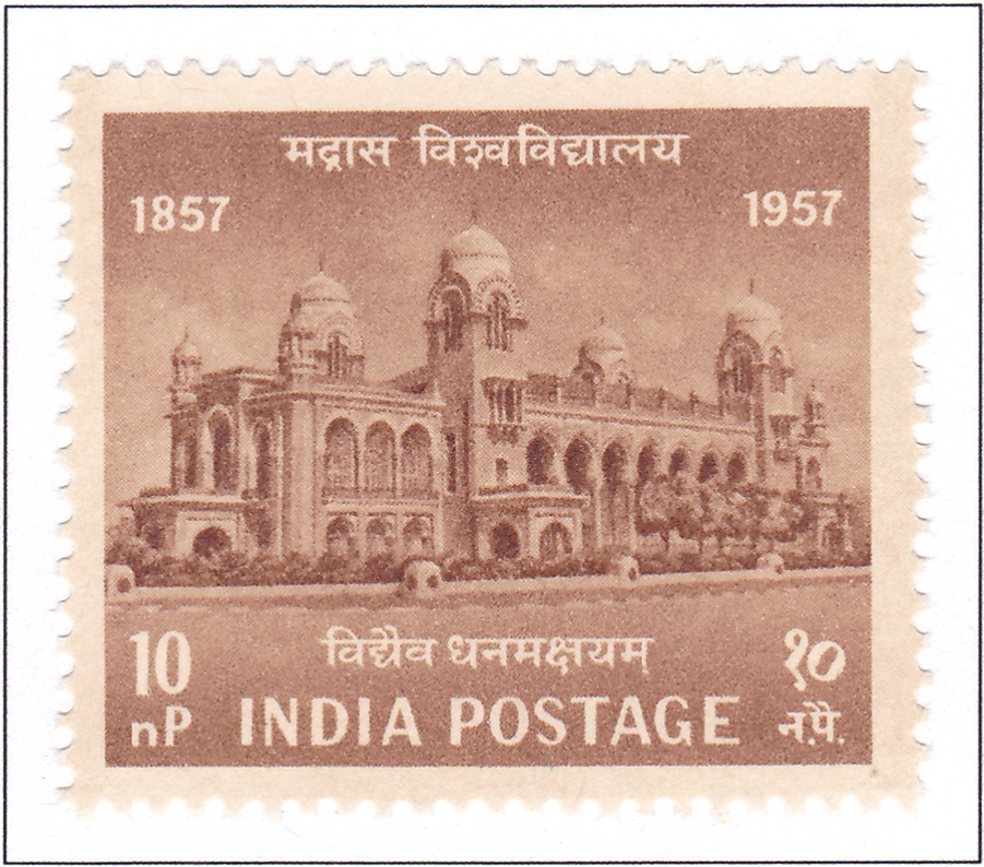 University of Madras 10 NP